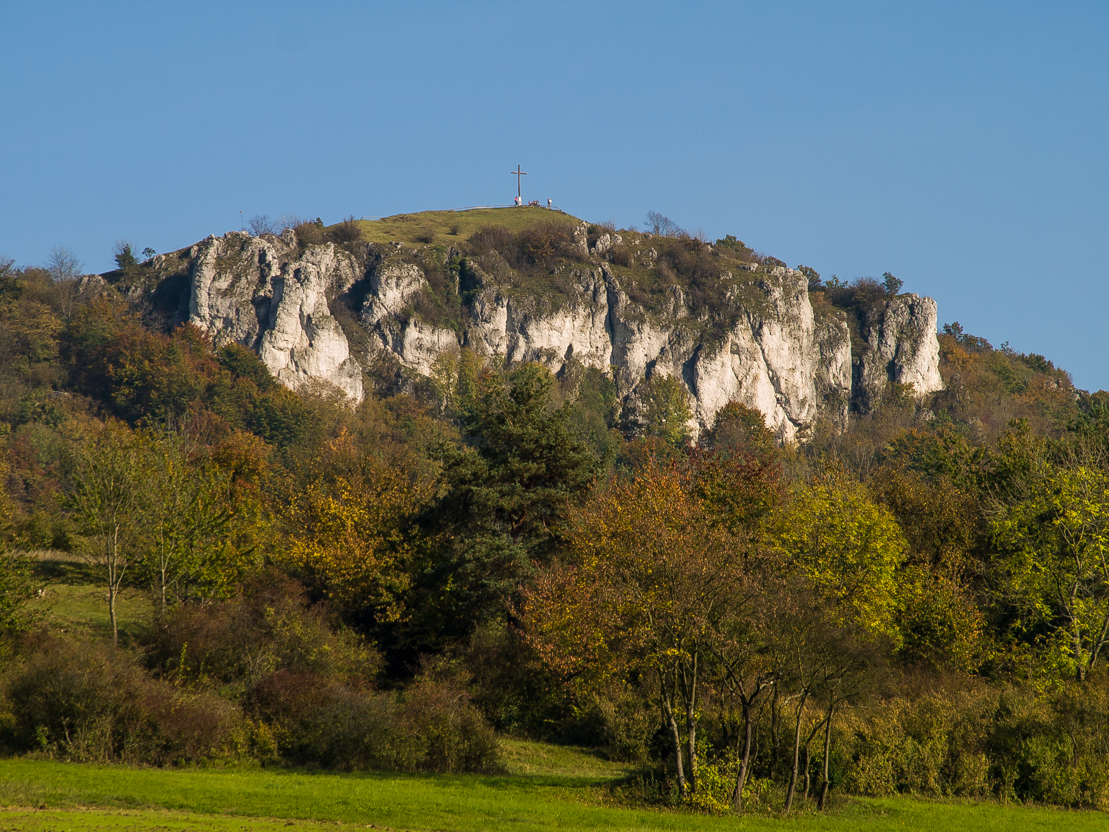 View at the Walberla from the direction of Wiesenthau